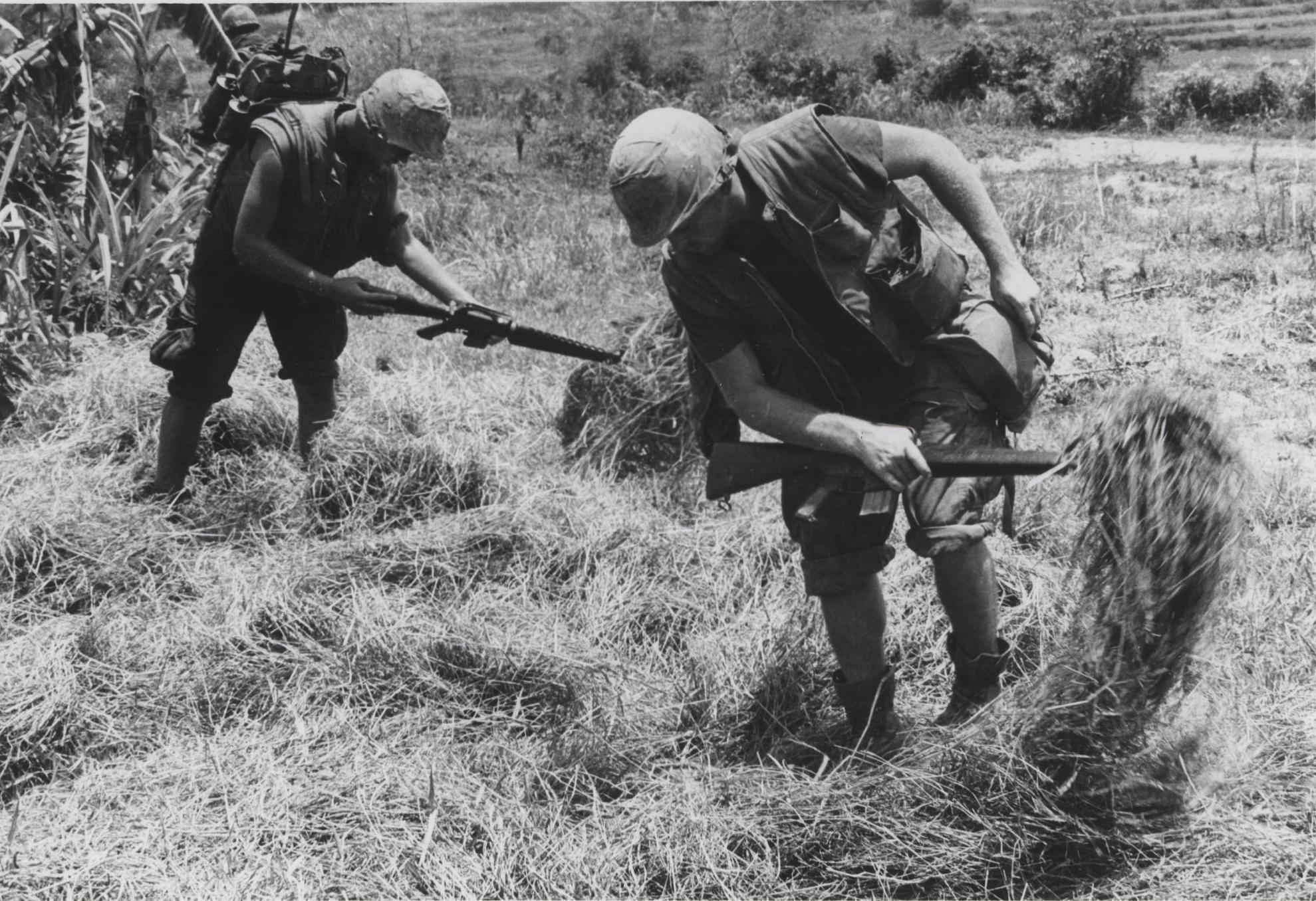 "Search and Clear: Marines of the 1st Marine Division’s 7th Marine Regiment search a field during Operation Oklahoma Hills, looking for enemy caches of food, weapons, and ammunition. During the two-month operation 596 enemy soldiers were killed and several base camps destroyed in the Charlie Ridge, Happy Valley, Worth Ridge areas, 18 miles southwest of Da Nang." From the Jonathan F. Abel Collection (COLL/3611), Marine Corps Archives & Special Collections OFFICIAL USMC PHOTOGRAPH